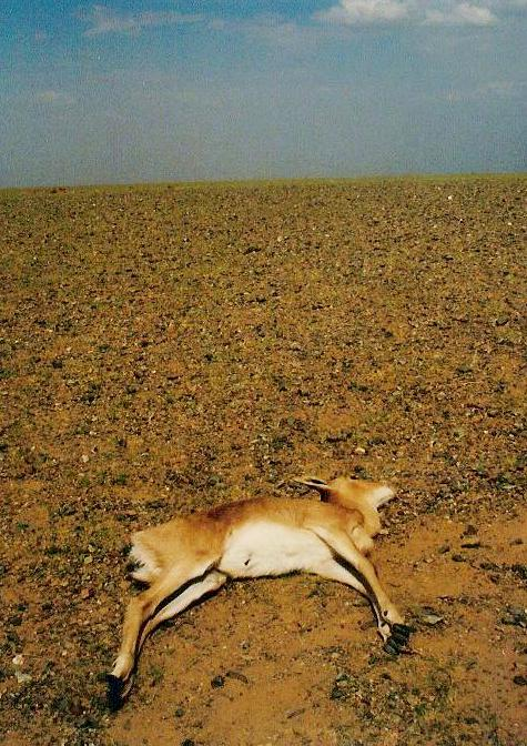 A Mongolian gazelle that has died of drought, due to the third straight year of "dzud" or heavy winter drought and freezing temperatures. Photo from 2001.